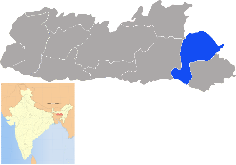 Locator map of West Jaintia district of the Indian state of Meghalaya.